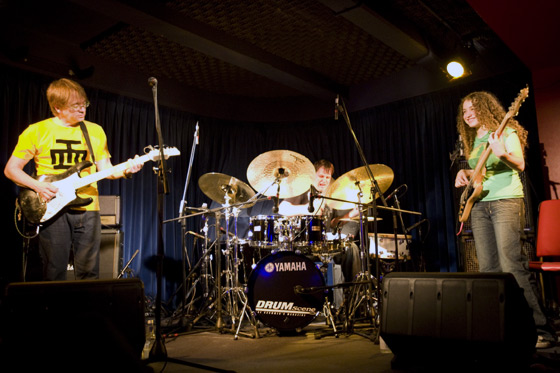 Bennetts Lane, November 2008 The Tal Wilkenfeld Trio, featuring Wayne Krantz, guitar, and Keith Carlock, drums